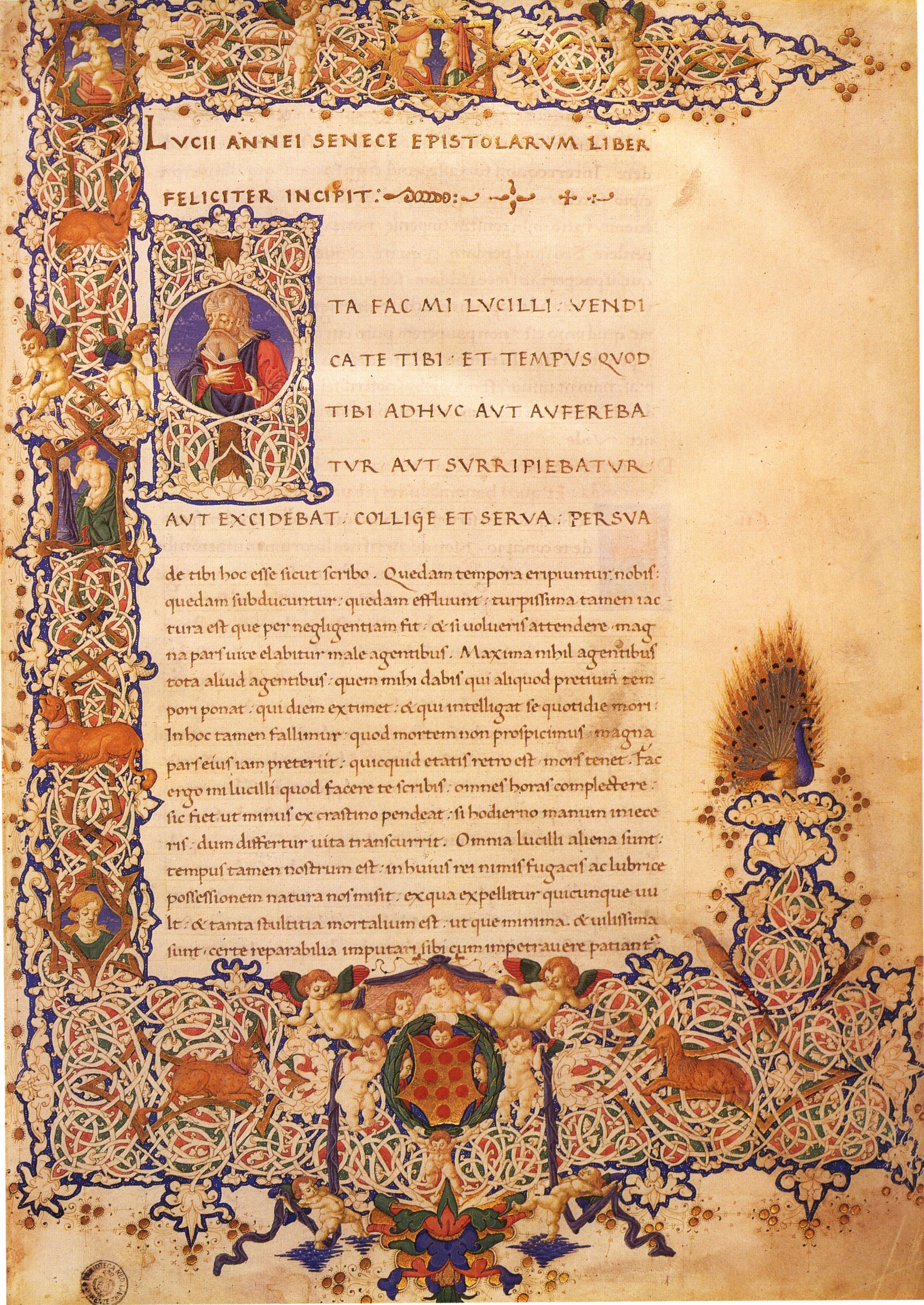 Seneca the Younger, Letters (Epistulae morales ad Lucilium). Latin manuscript. In ms. Florence, Biblioteca Medicea Laurenziana, Plut. 45.33, fol. 1r.